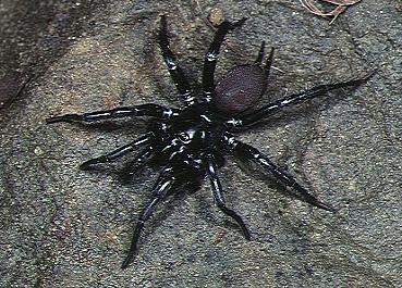 male Macrothele yaginumai from Okinawa.